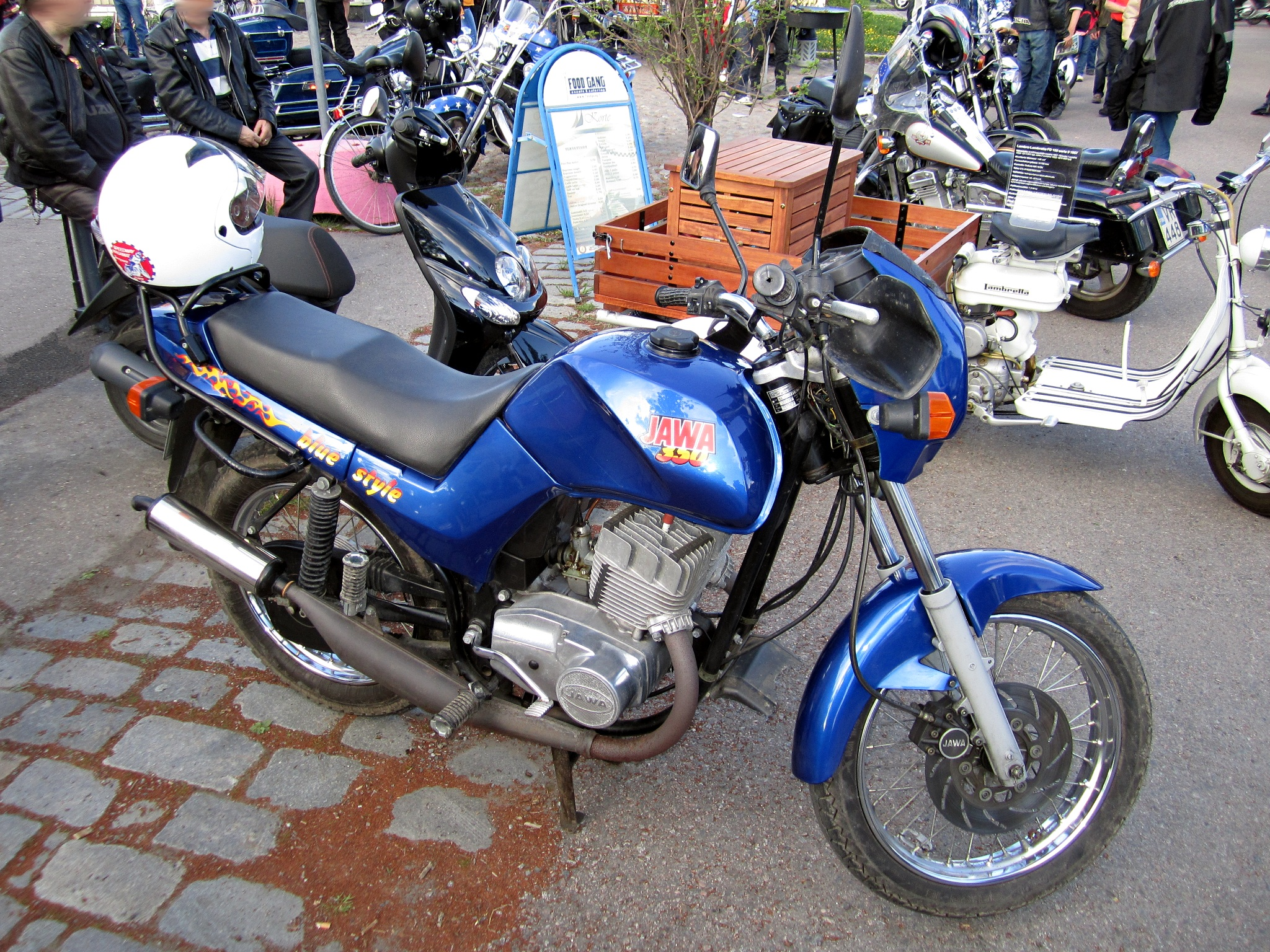 Jawa 350 Typ 640 Style motorcycle. Two-cylinder two-stroke, air-cooled. Made in Czech Republic.